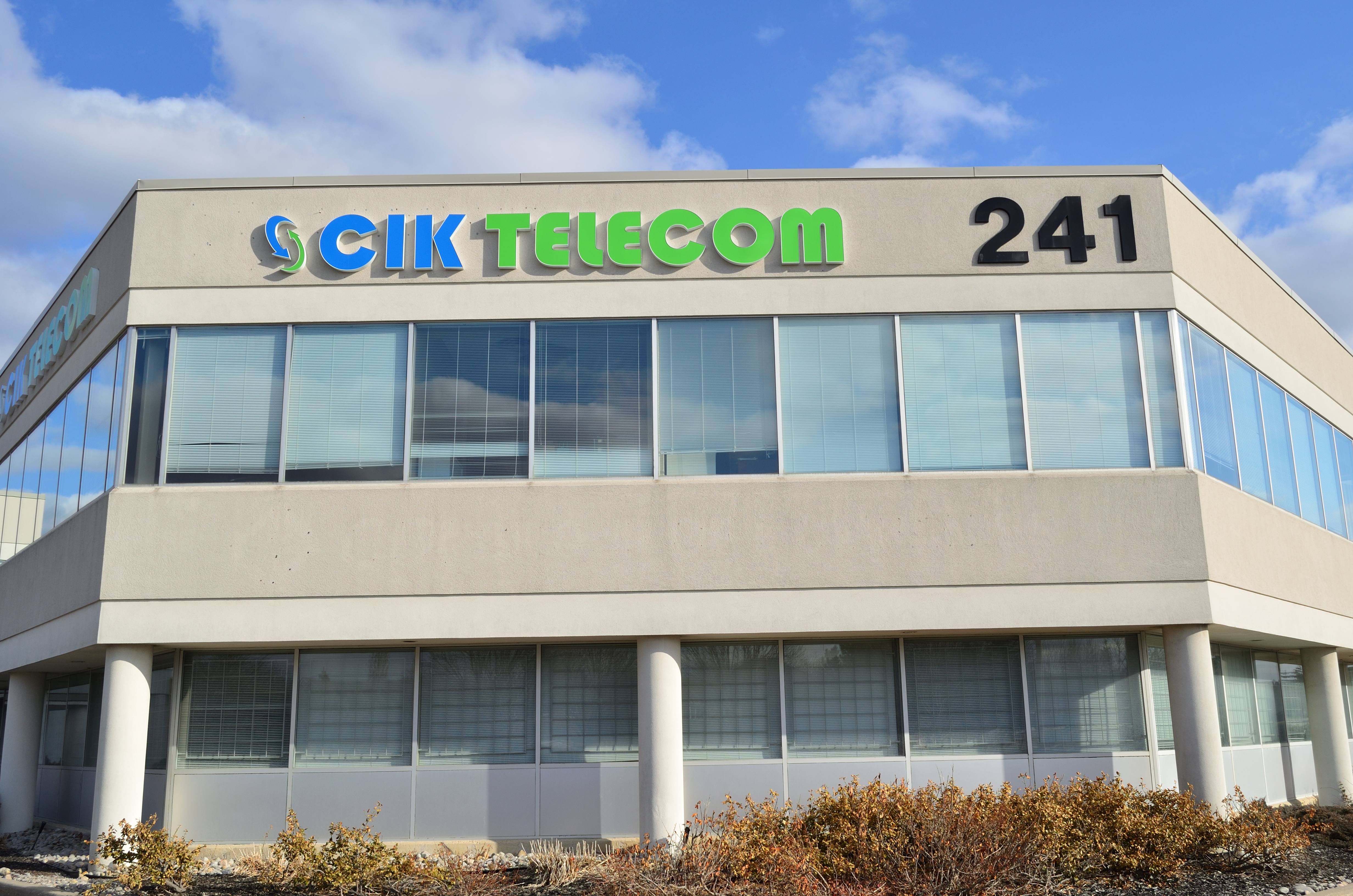 CIK Telecom Toronto Office - Address: 241 Whitehall Drive, Markham, ON, L3R 5G5